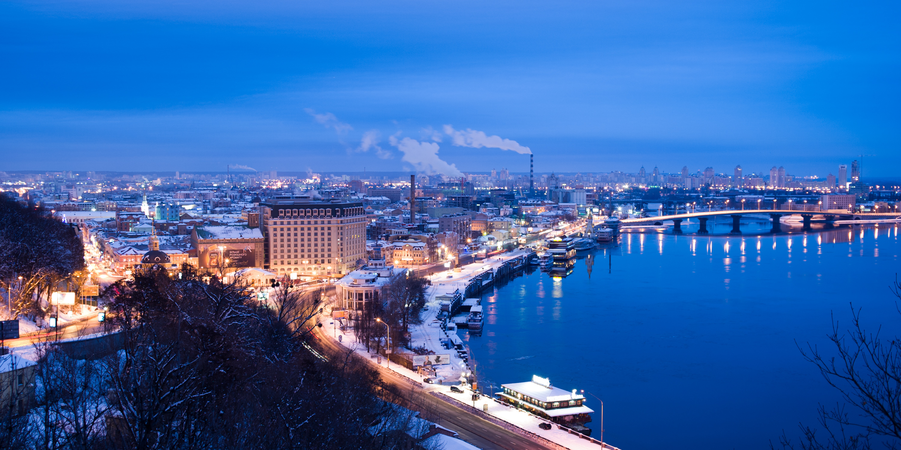 Panoramic view of the Dnieper River right bank. Kiev, Ukraine, Eastern Europe.